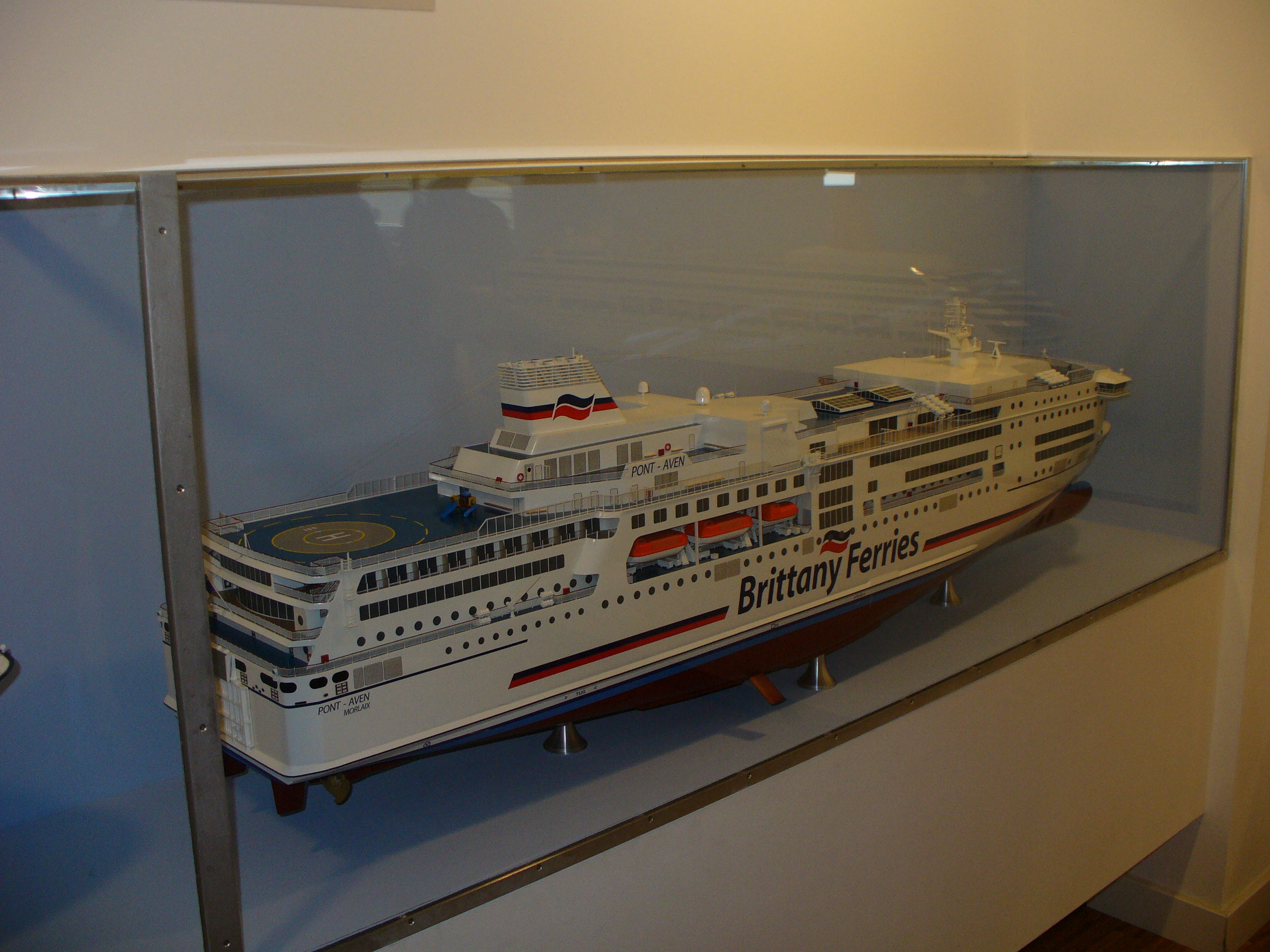 Model of the Brittany Ferries cruiser, located at the Papenburger Werftsmuseum.